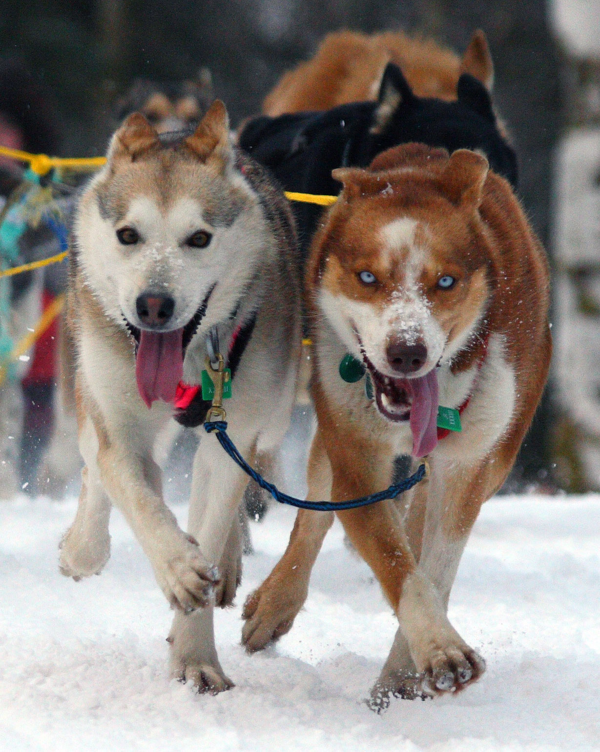 I took these photos on 6 March 2010 at the ceremonial start of the Iditarod dog sled race. The real start is from Willow. The Iditarod is known as "the last great race". It goes 1,100 miles from Willow to Nome through unforgiving terrain and downright nasty weather. I took these photos between Goose Lake and APU. What a great day to be an Alaskan!